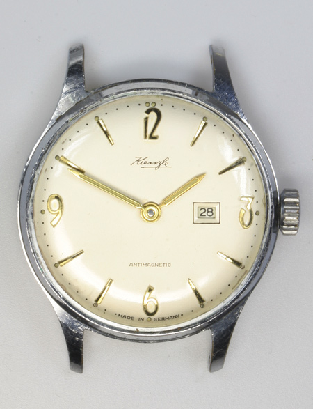 KIENZLE 60